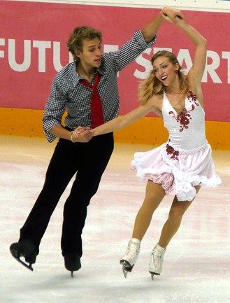 Katherine Copely and Deividas Stagniūnas during the Cup of Russia 2007. OD - Folk, Country